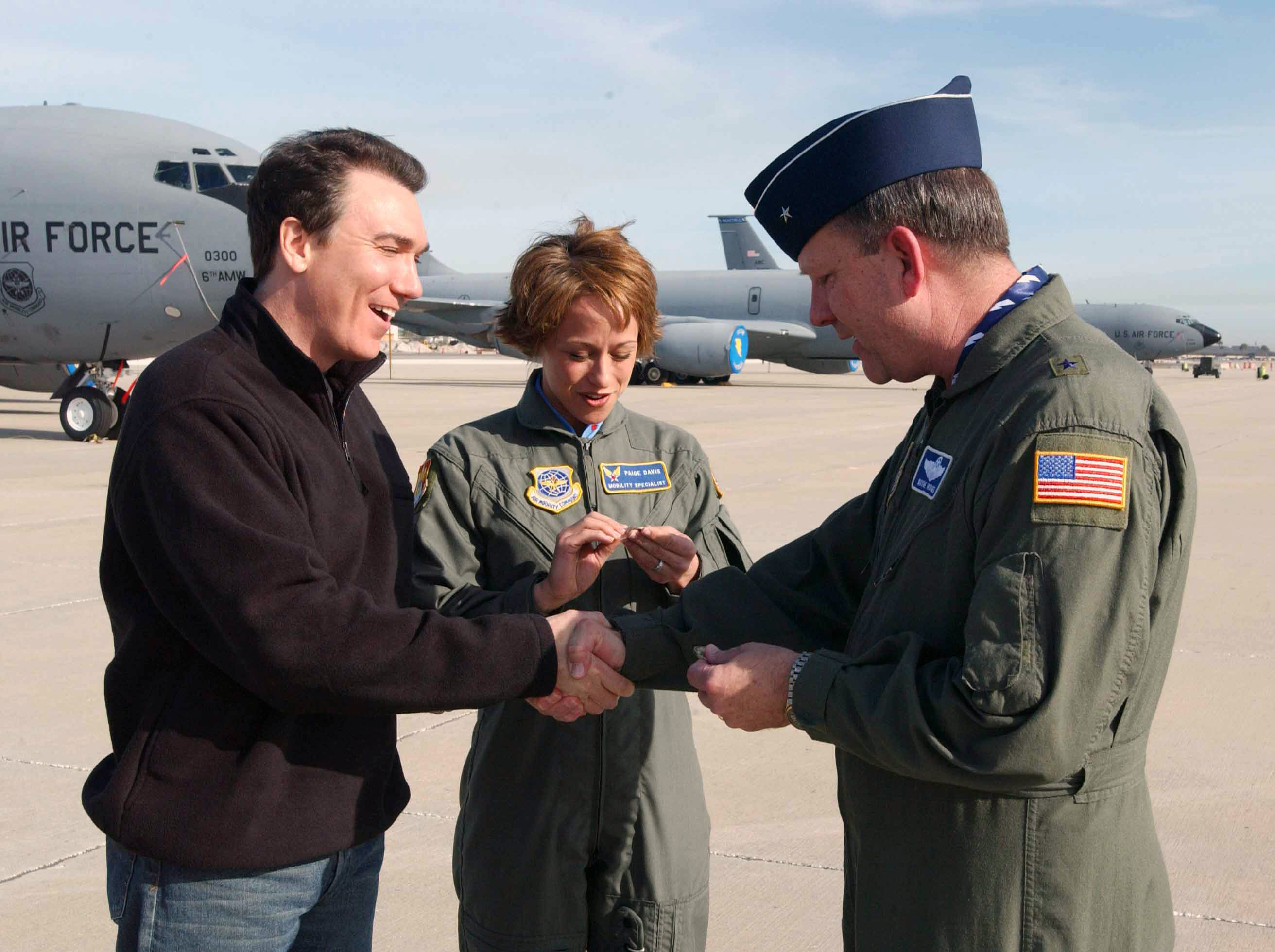 US Air Force (USAF) Brigadier General (BGEN) William W. Hodges presents coins to both actress Paige Davis, host of Trading Spaces and her husband Patrick, before an orientation flight on a US Air Force (USAF) KC-135 Stratotanker at MacDill Air Force Base (AFB), Florida. 021230-F-5127B-002